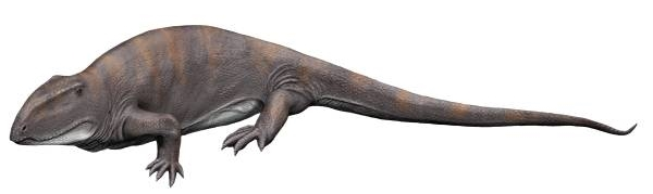 Ophiacodon mirus